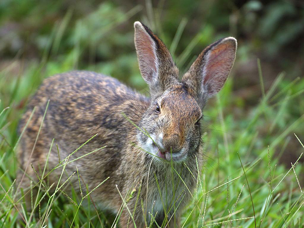 [1] Edited by Fir0002